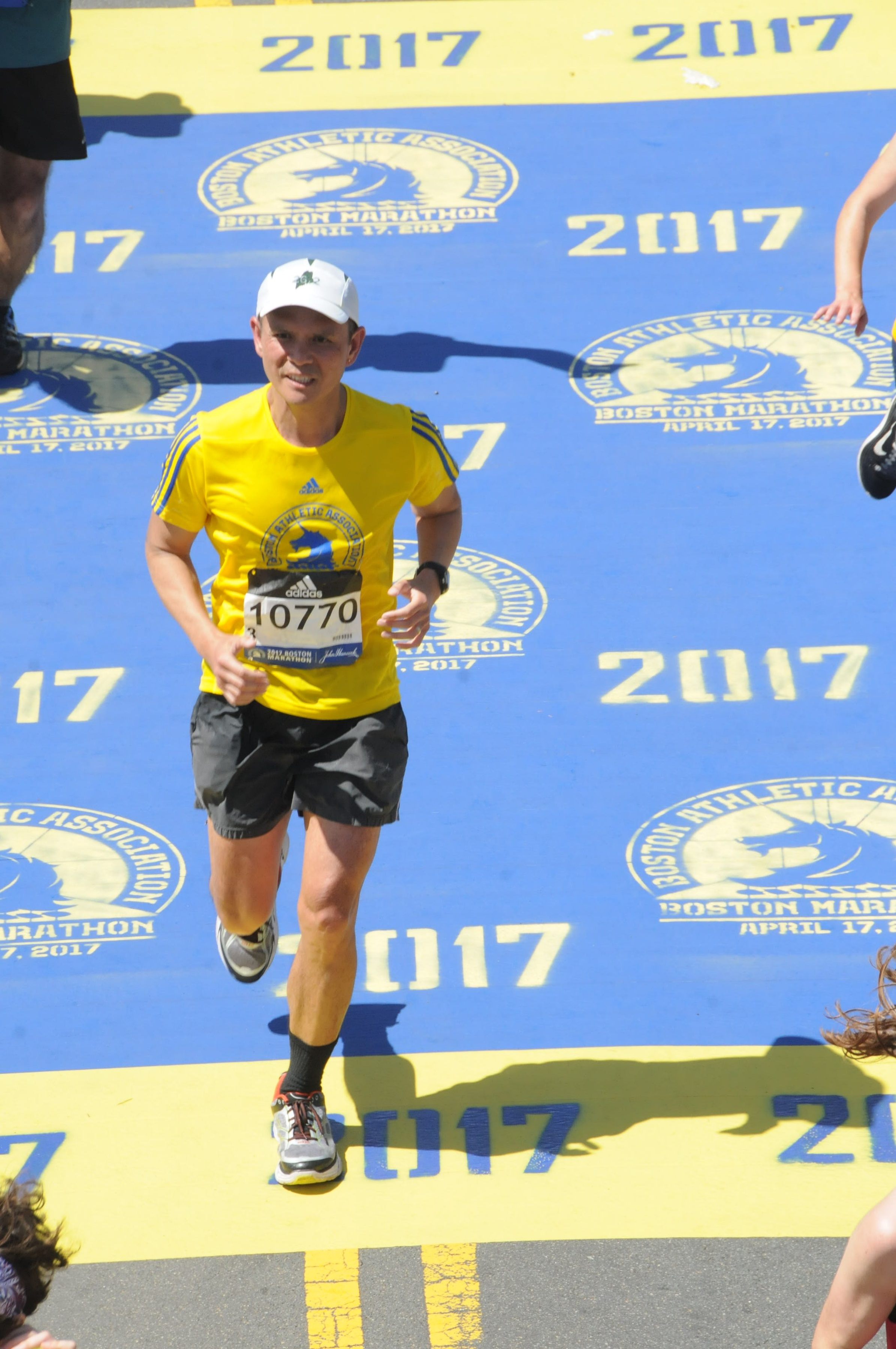 2017 Boston Marathon finish line